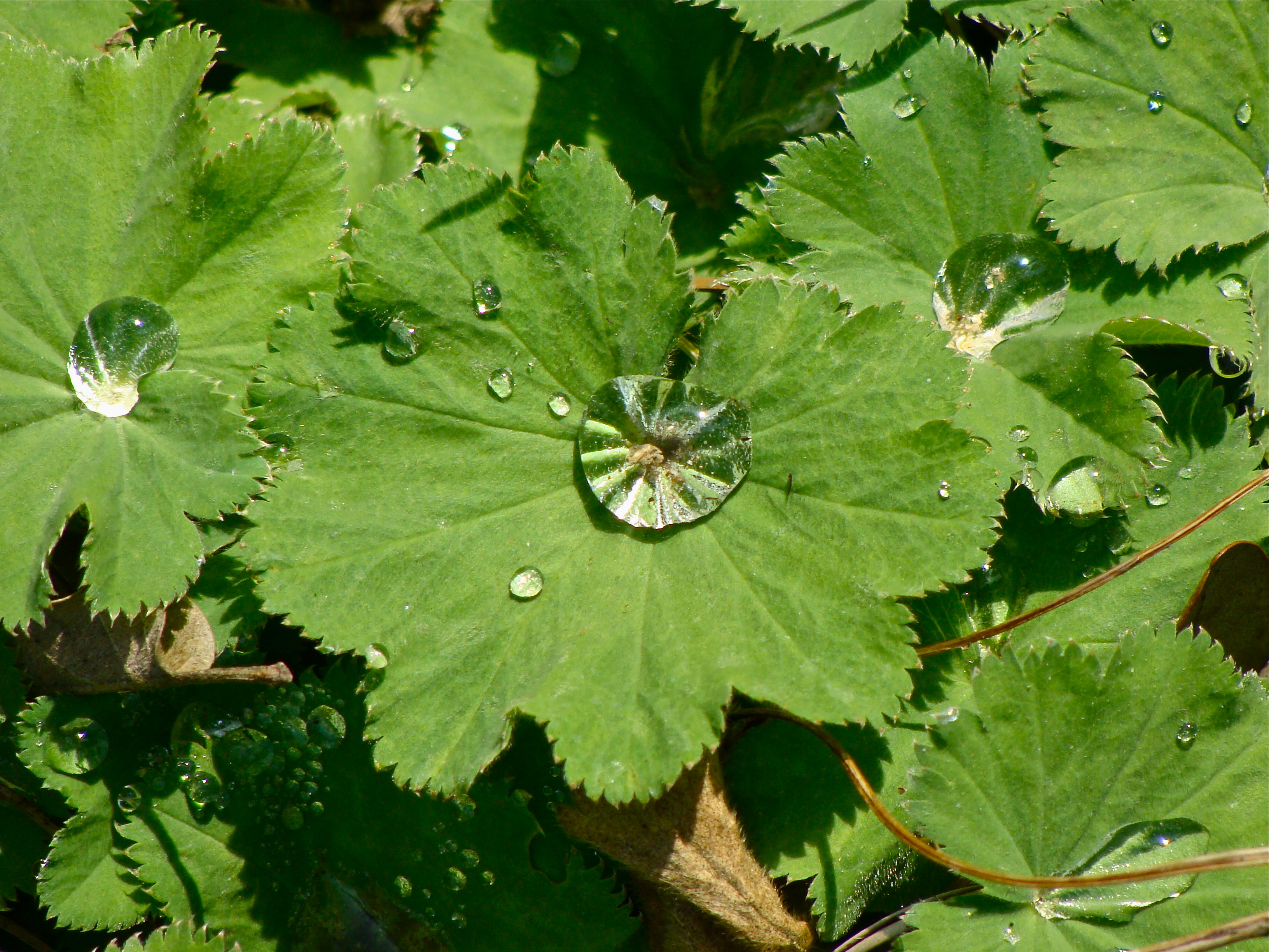 water droplets